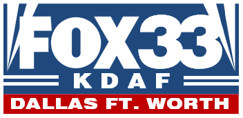 Former KDAF logo under Fox